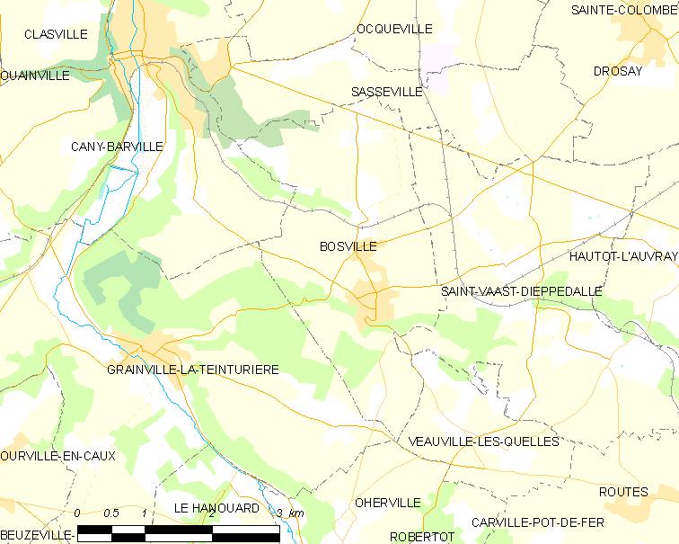 Map of French municipality Bosville